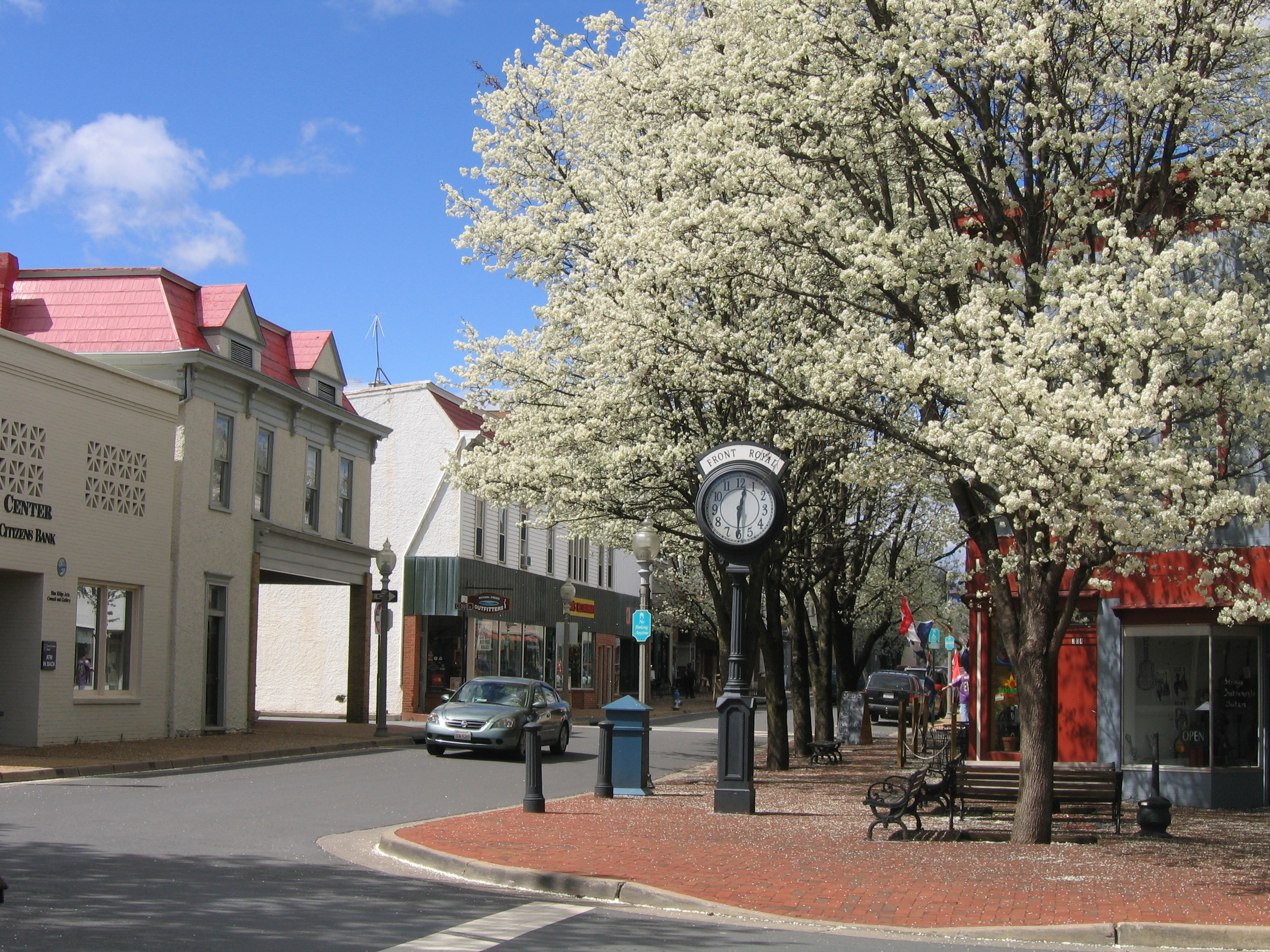 Main Street in Front Royal, April 2009.